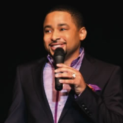 Smokie Norful during CD Recording.